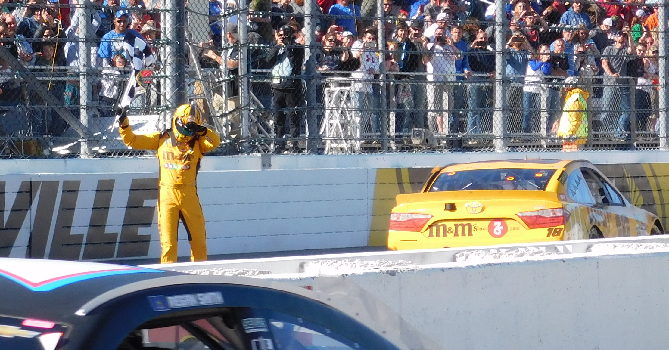 Kyle Busch celebrates after winning the STP 500 at Martinsville Speedway in 2016.